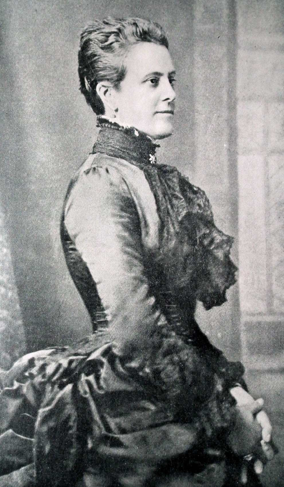 Annie Brassey author of adventures on the Sunbeam yacht in 19th century